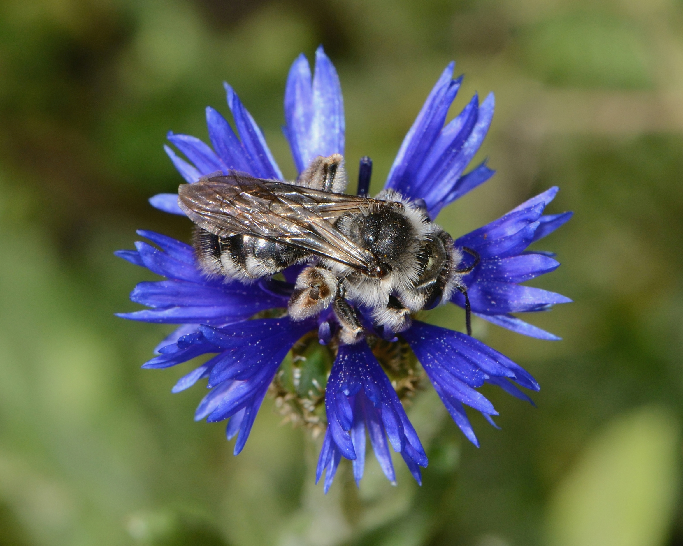 Andrena fuscocalcarata, female foraging on Centaurea cyanoides, Mount Carmel, Israel, April 19, 2013.